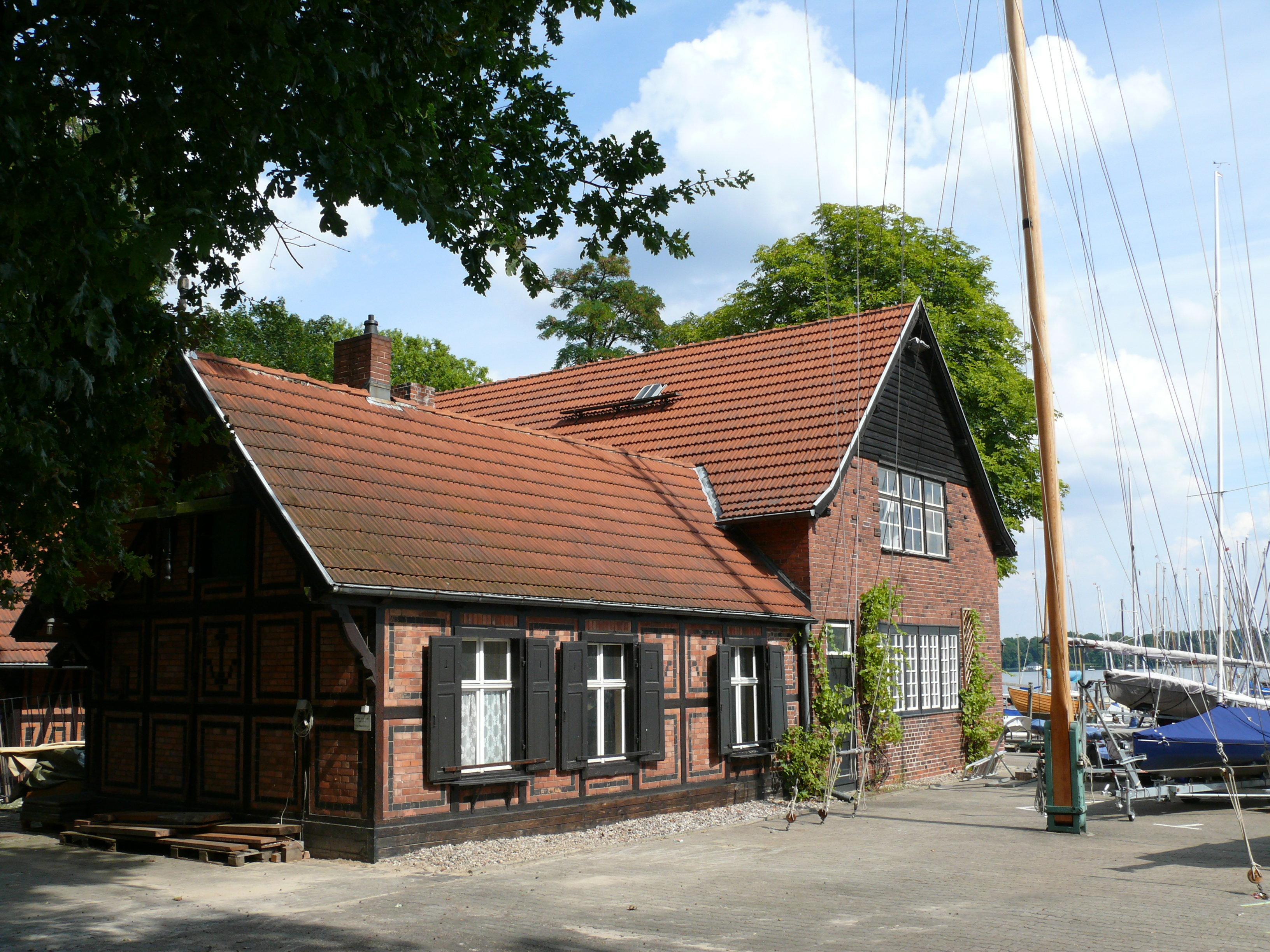 Berlin-Wannsee Am Großen Wannsee VSAW